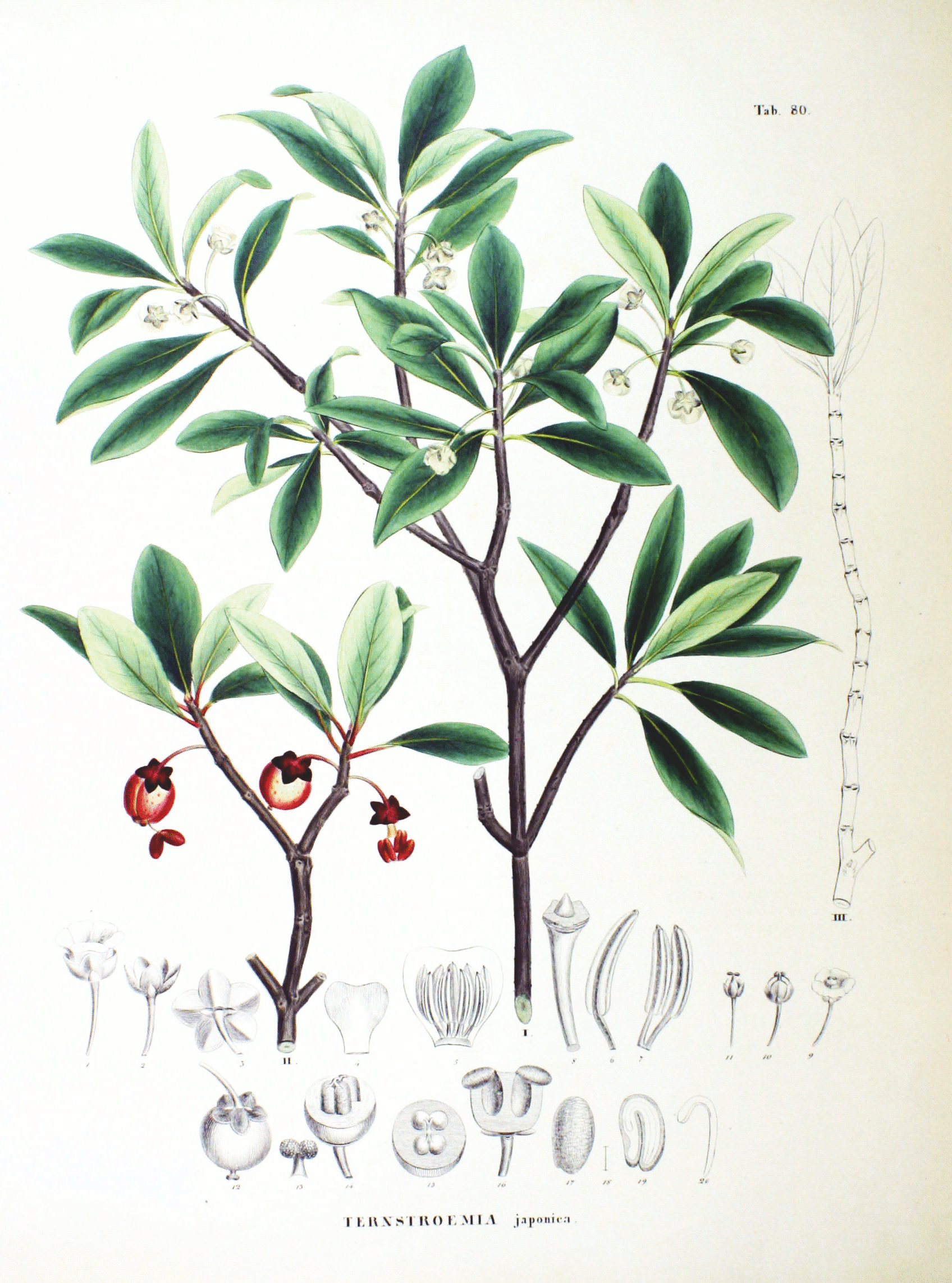 Plate from book